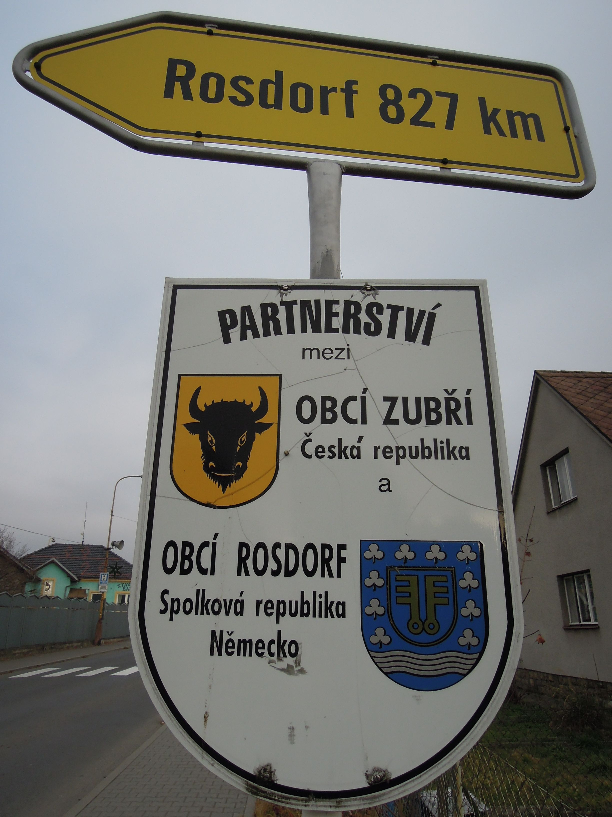 Sign in Zubří, Vsetín District, Zlín Region, Czech Republic